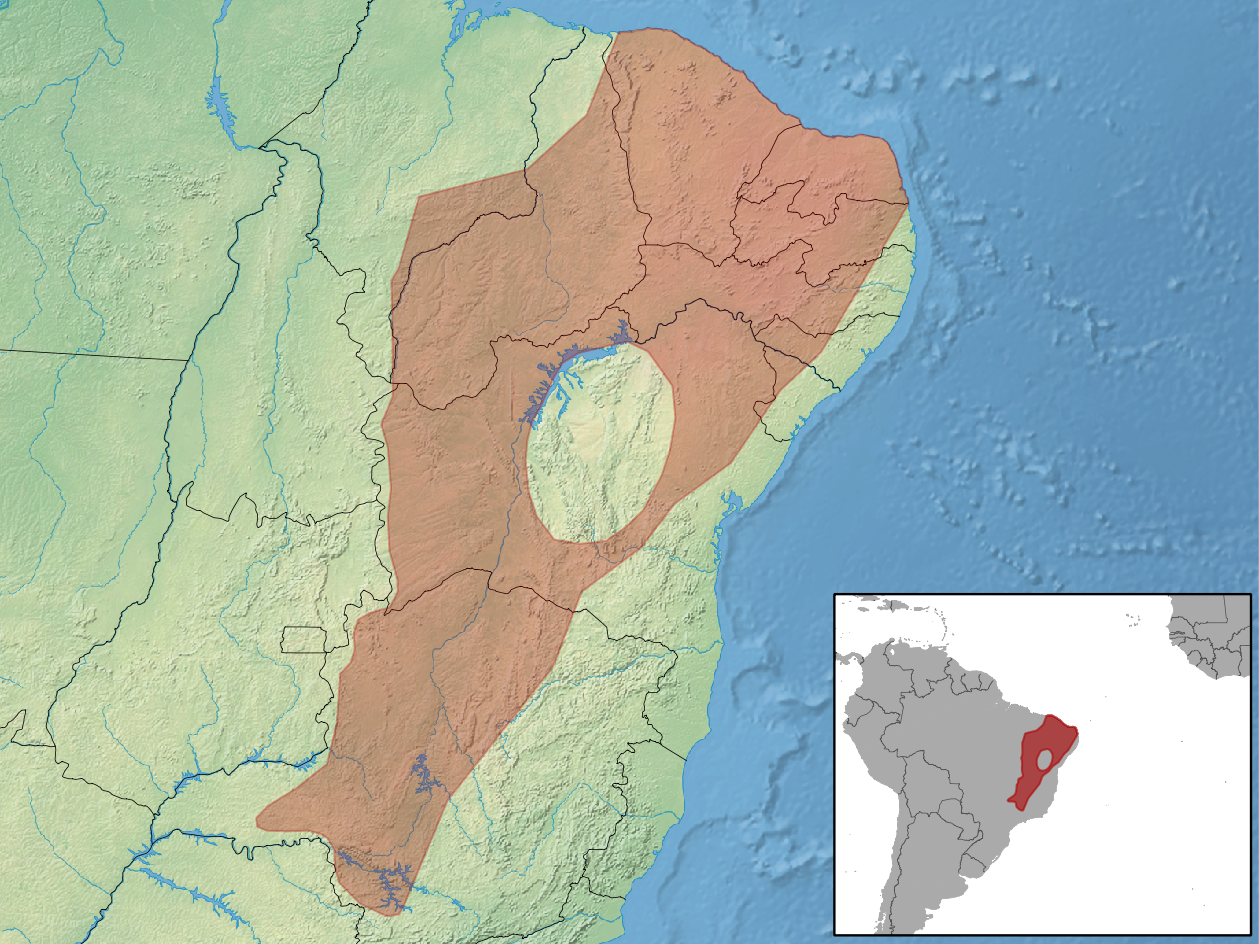 geographic distribution of Thrichomys apereoides